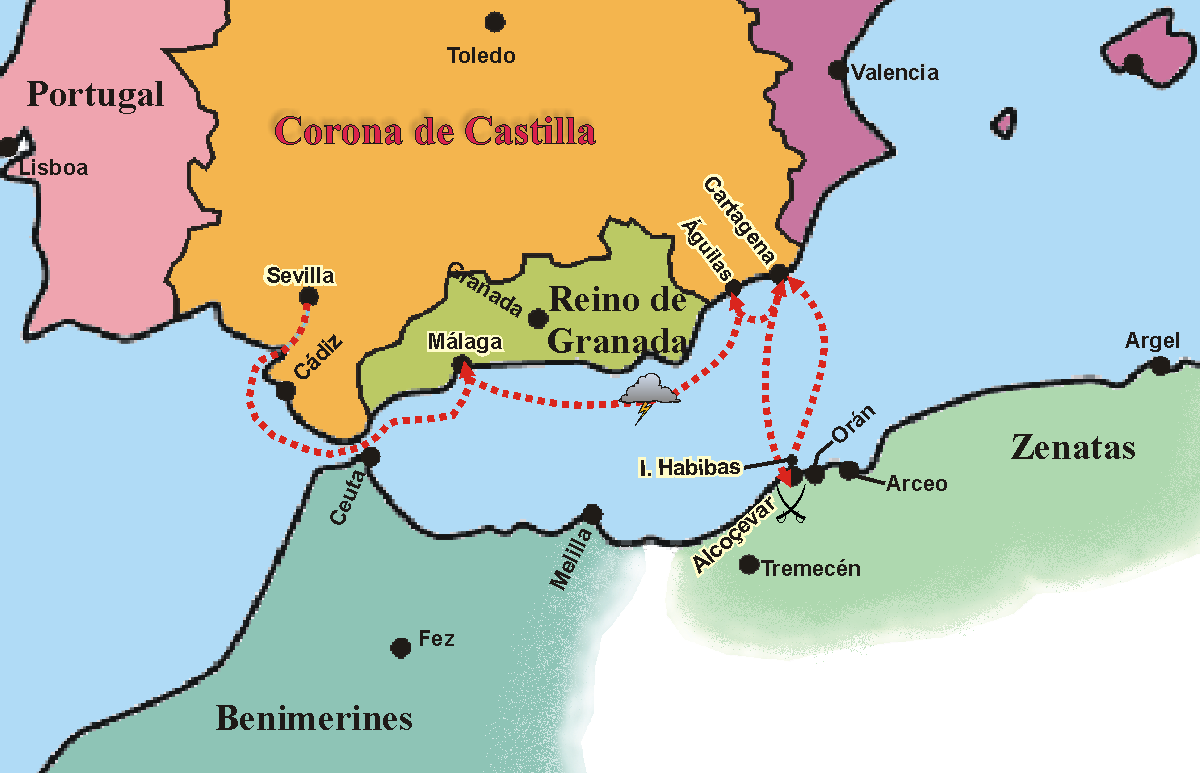 First Mediterranean expedition (May–June 1404) of Castilian soldier, sailor and privateer Pero Niño (1378–1453).